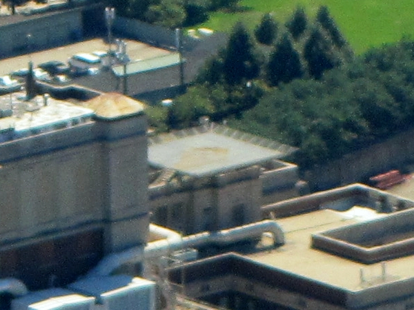 Hilton Chicago, helipad